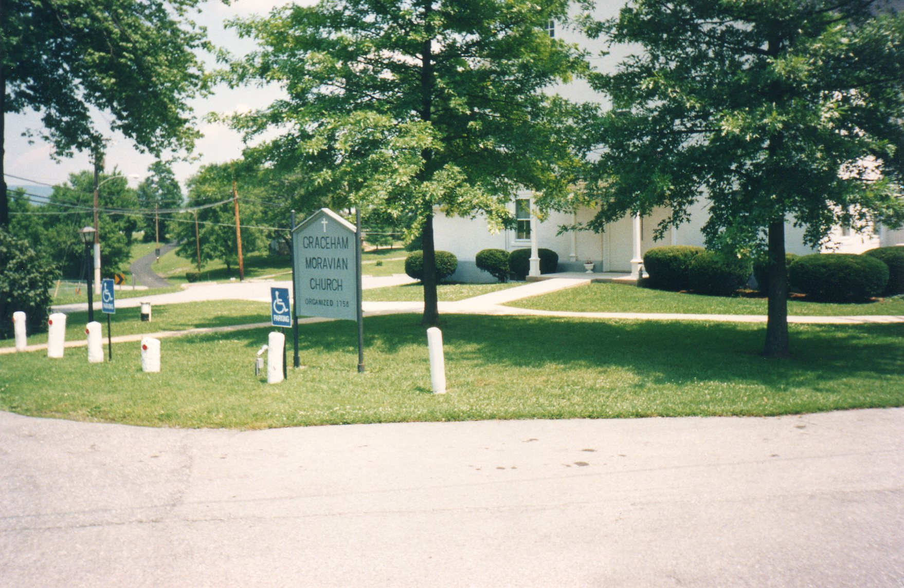 Graceham Moravian Church, Graceham, east of Thurmont, Frederick County, Maryland: Sign